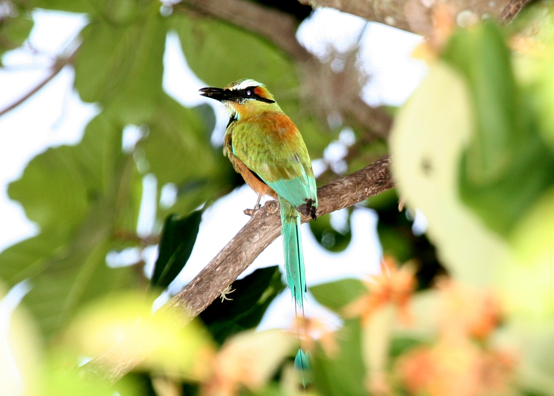 Turquoise-browed Motmot (Eumomota superciliosa) in Honduras.